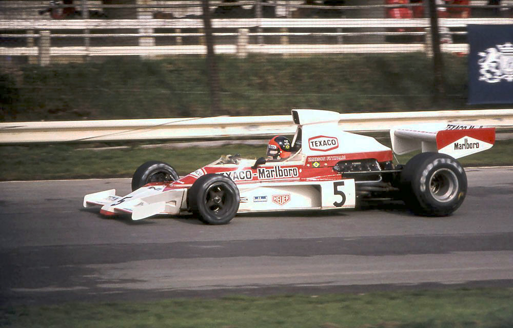 Emerson Fittipaldi, Marlboro Team Texaco (McLaren) McLaren M23 at British GP Race of Champions *The chassis seemed to be an earlier model of the 1974 M23B (look its engine cover)